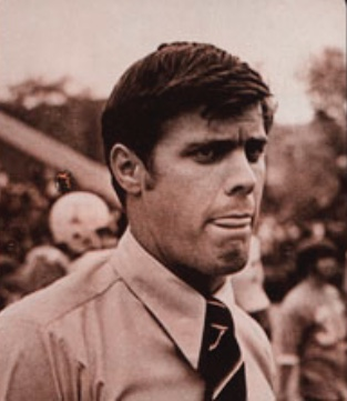 University of Tennessee football coach Bill Battle in 1972